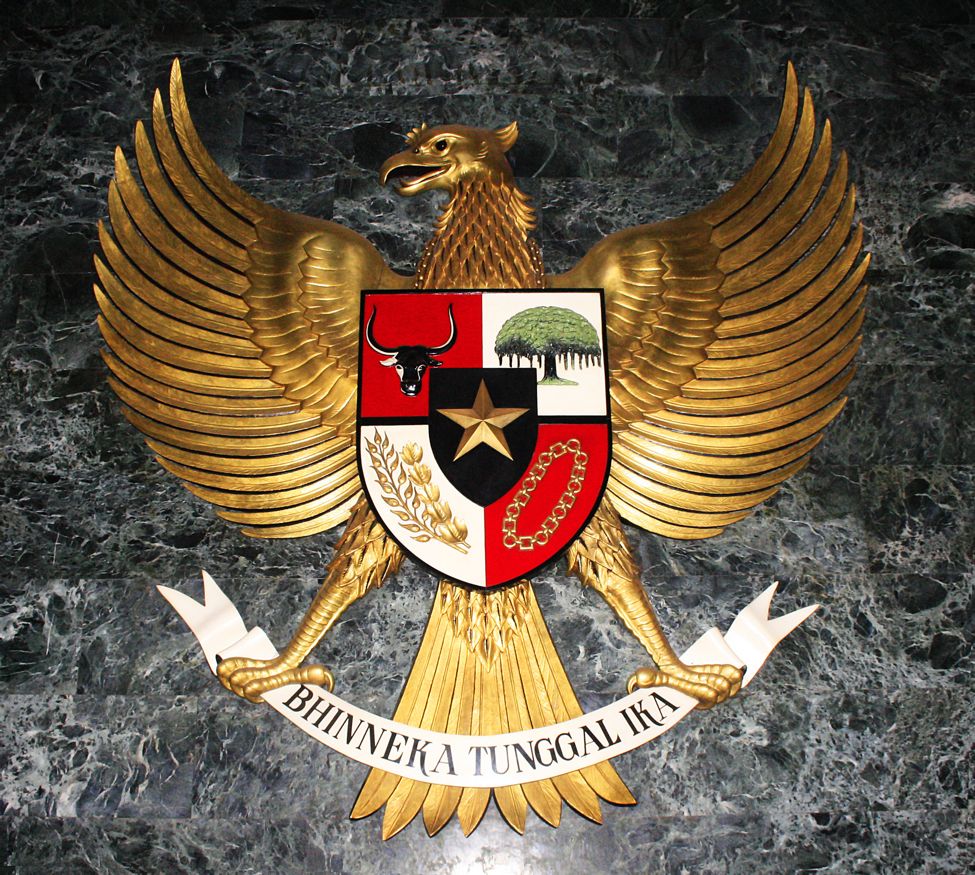 The statue of Garuda Pancasila, the coat of arms of Indonesia, being displayed at Ruang Tenang (Serene Room) at National Monument (Monas), Jakarta. The room also houses original text of Indonesian Independence Proclamation. Images taken at National Monument, Central Jakarta, Indonesia